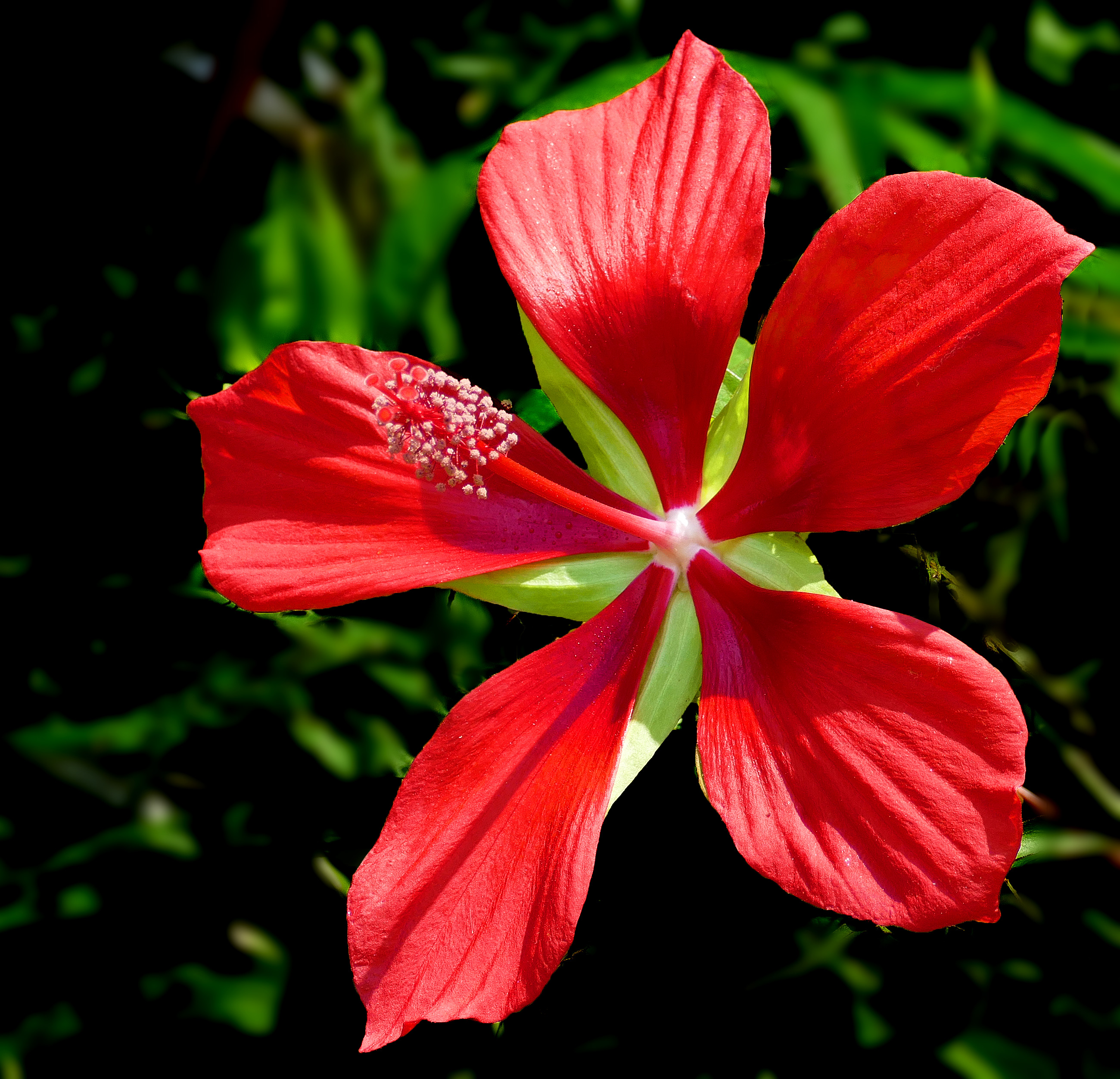 Texas Star or scarlet rose mallow -- Hibiscus coccineus